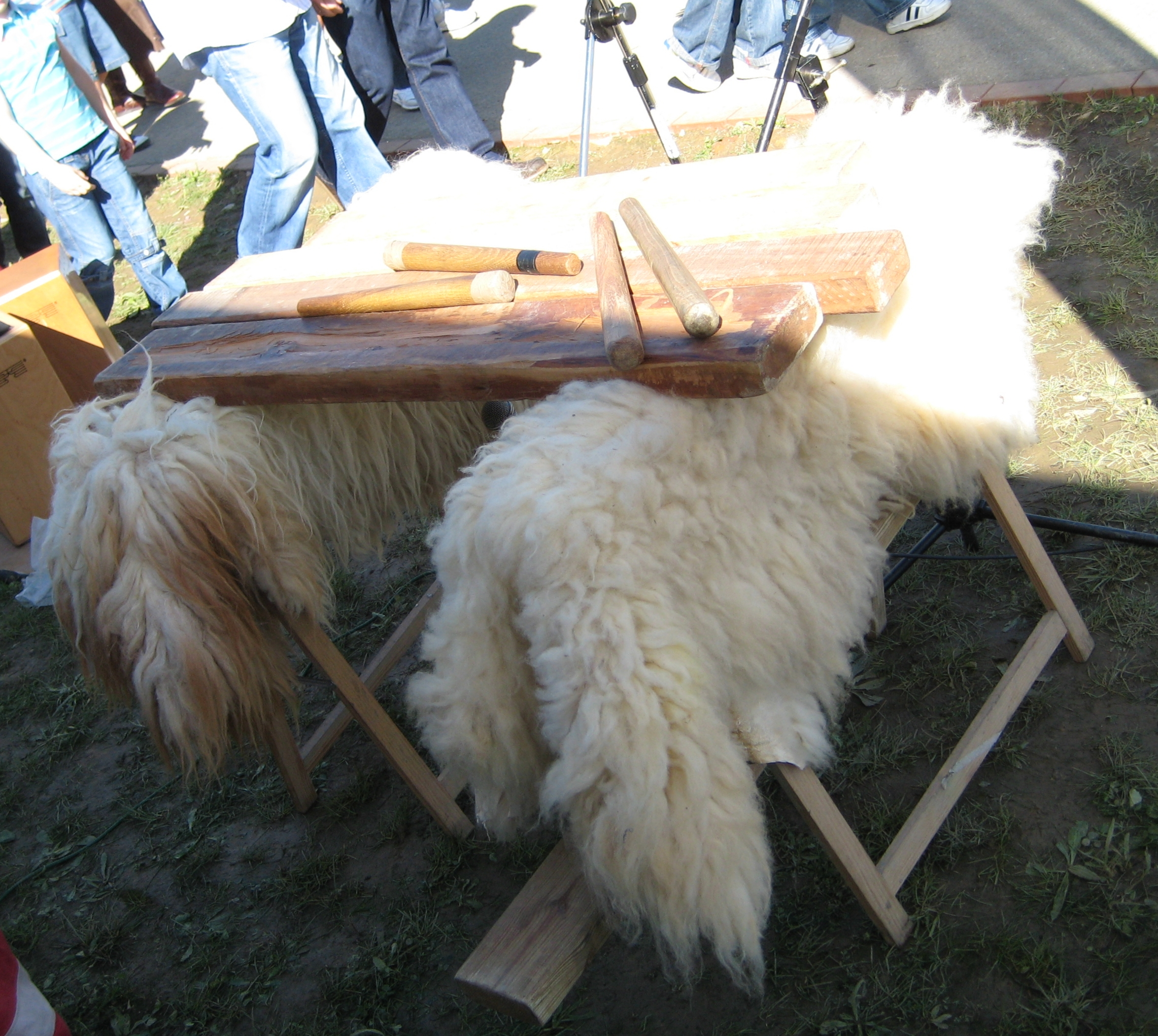 Two board txalaparta in Gallarta, Biscay